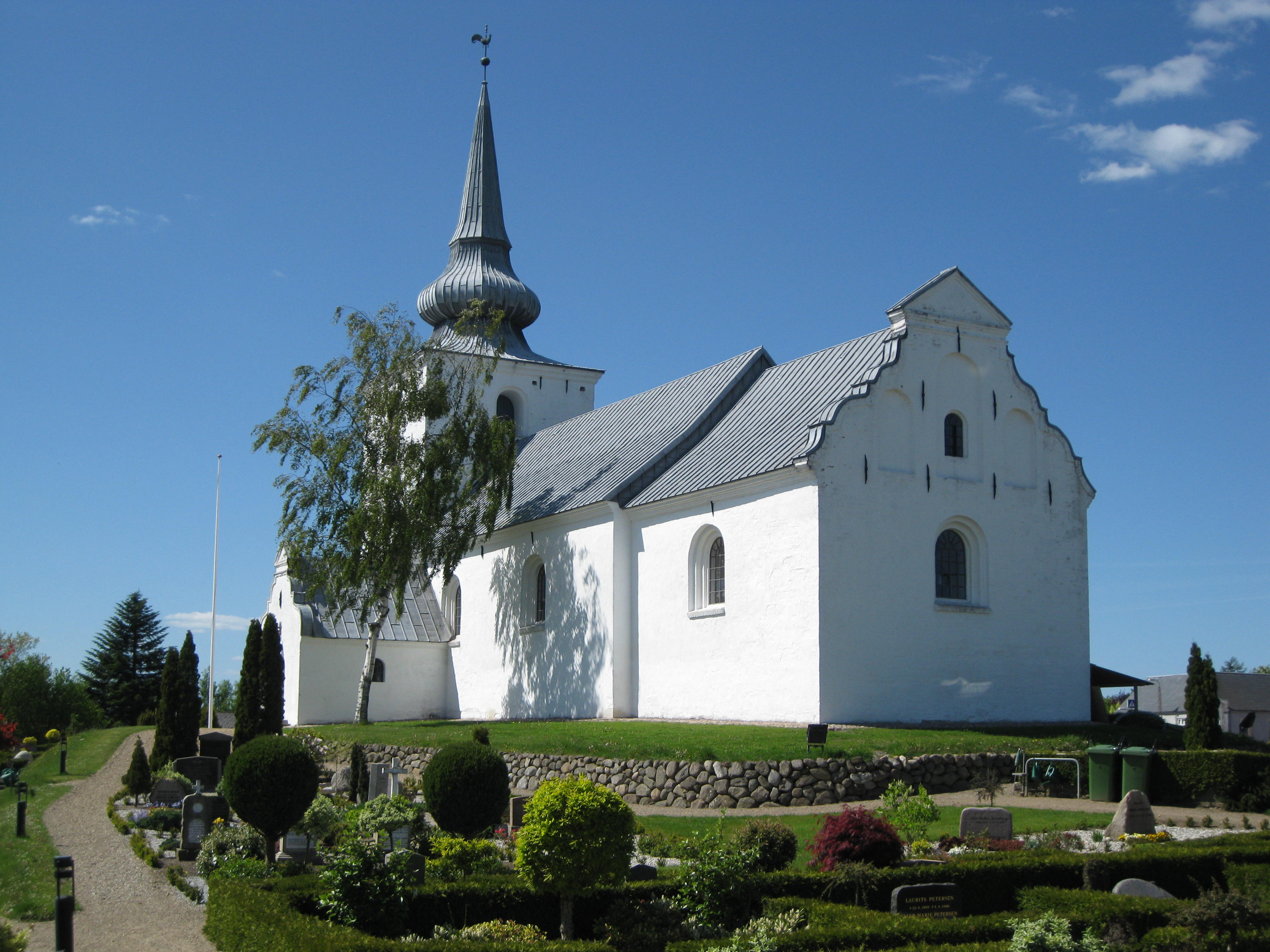 The church "Bredsten Kirke" in the small town "Bredsten". The town is located in South-Central Jutland, Denmark.